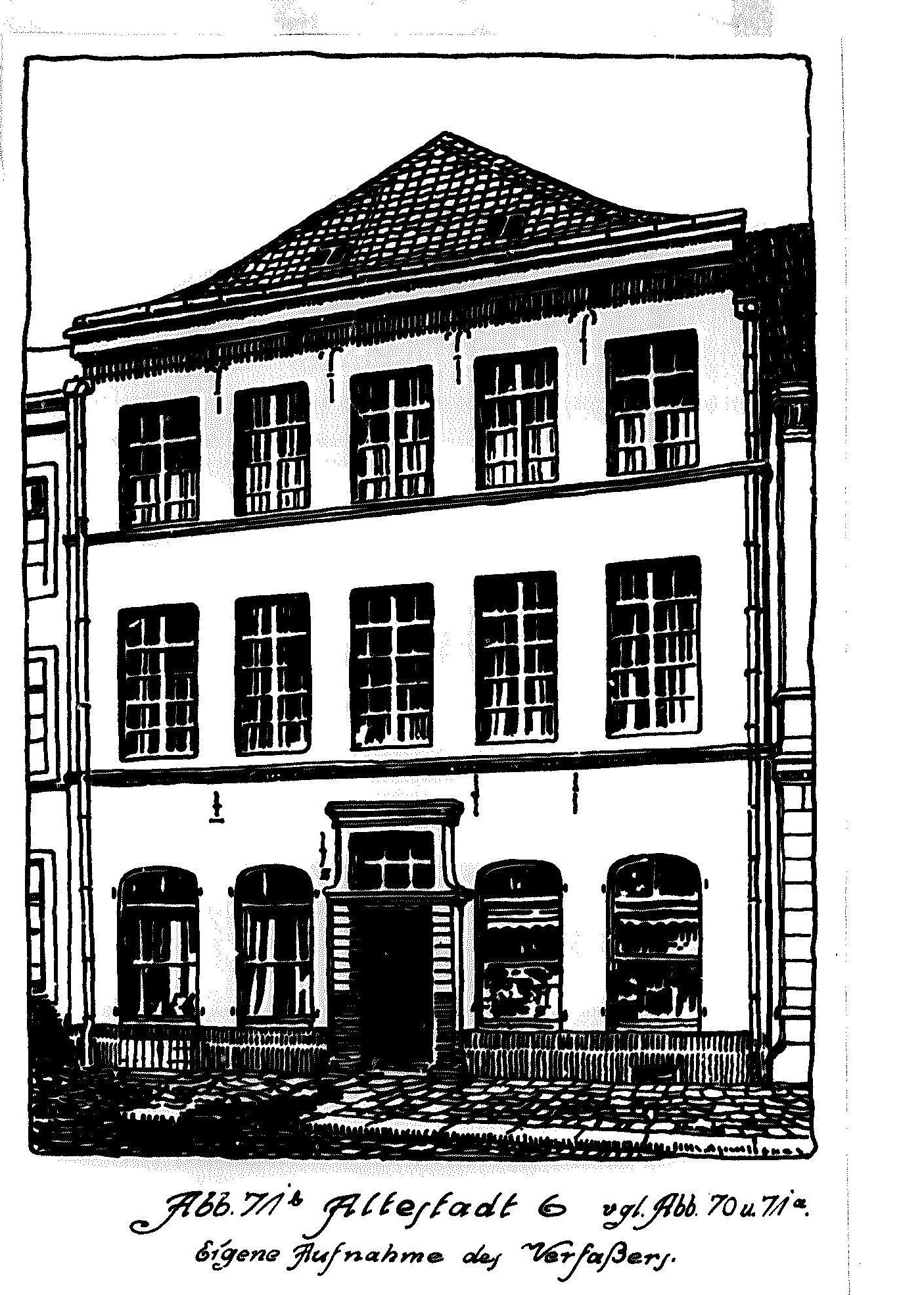 Paul_Sültenfuß,_Das_Düsseldorfer_Wohnhaus_bis_zur_Mitte_des_19._Jahrhunderts,_(Diss._TH_Aachen),_1922,__Abb._71b_Altestadt_6.jpg